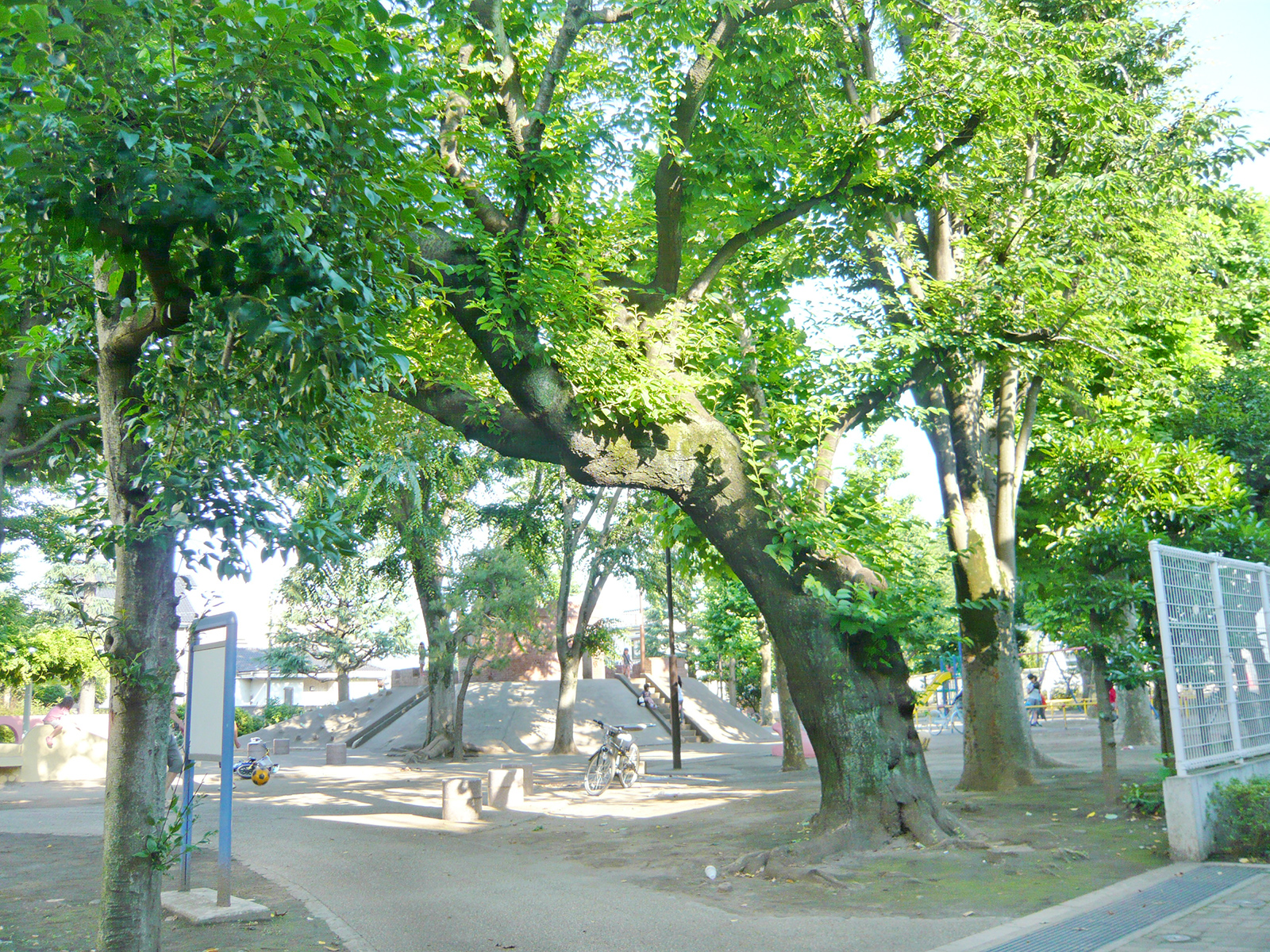 Minami-tanaka Park, in Nerima, Tokyo